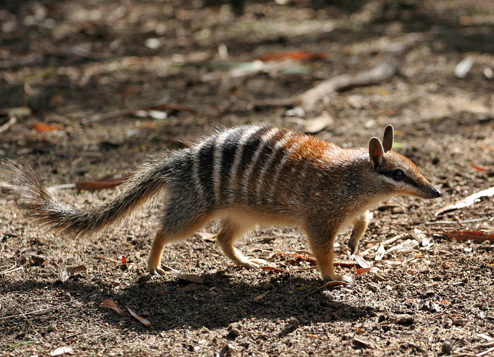 Numbat Perth Zoo, Western Australia taken by Martin Pot